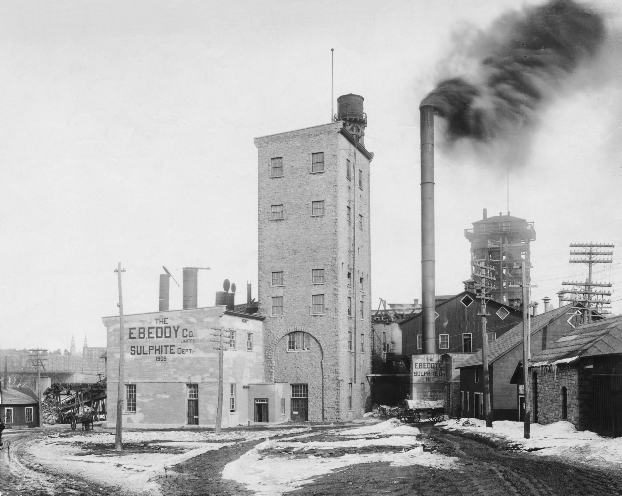 The Sulphite Pulp Mill